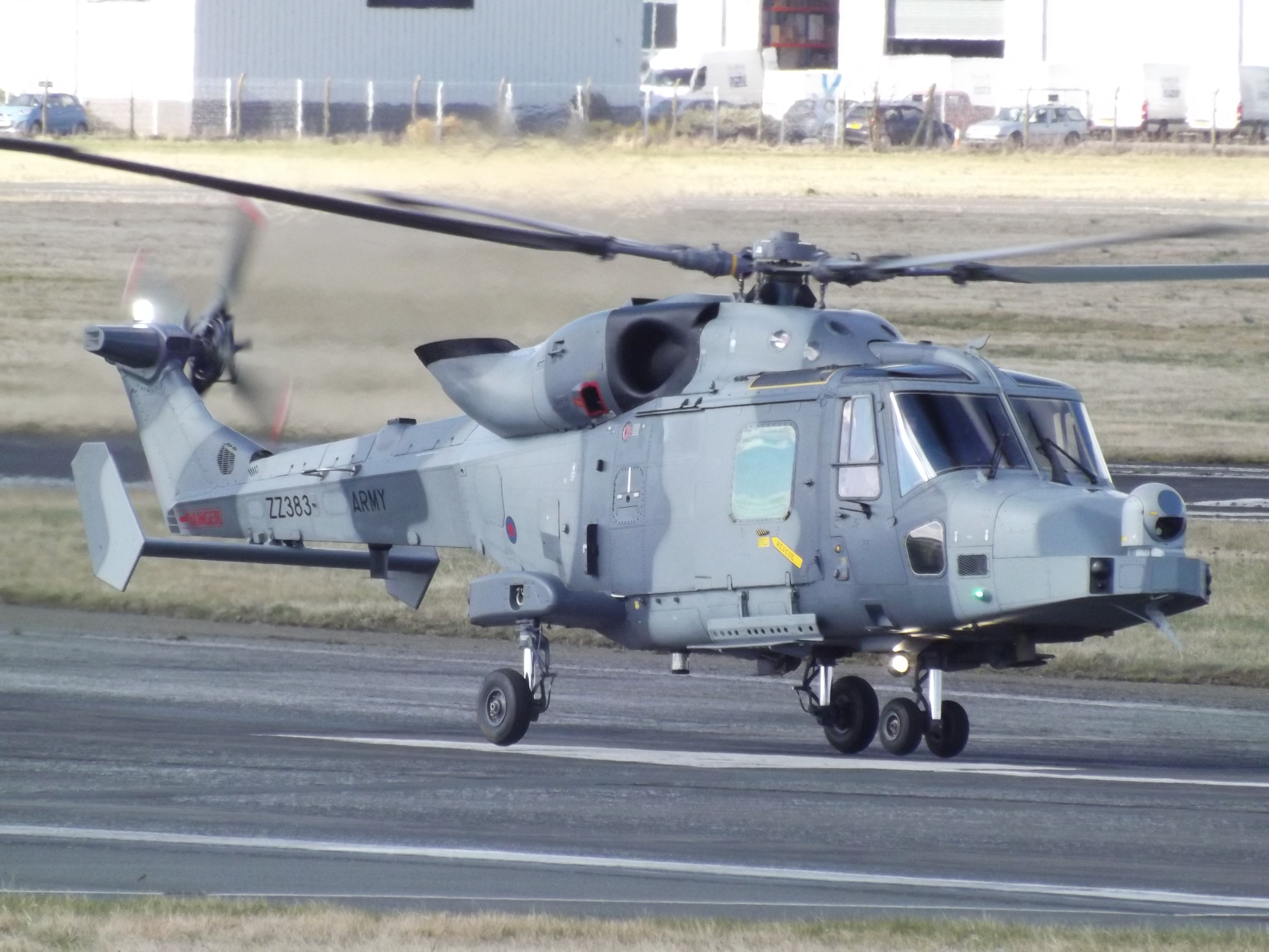 At Gloucestershire Airport.